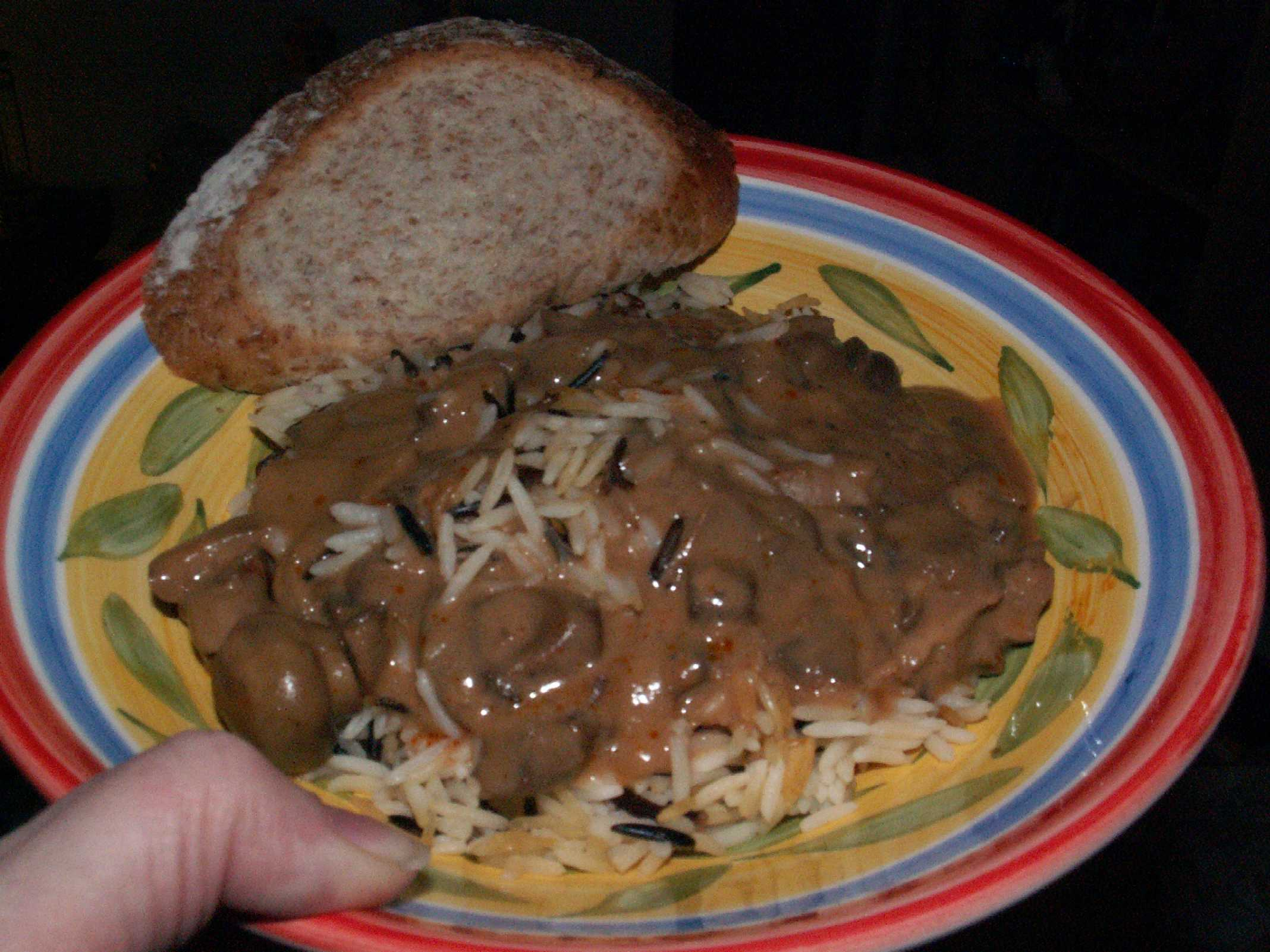 much better than the hospital slop seen here before bad stroganoff is here